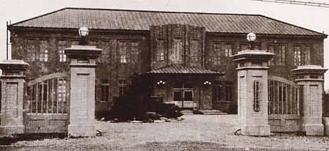 Toyohara City Hall